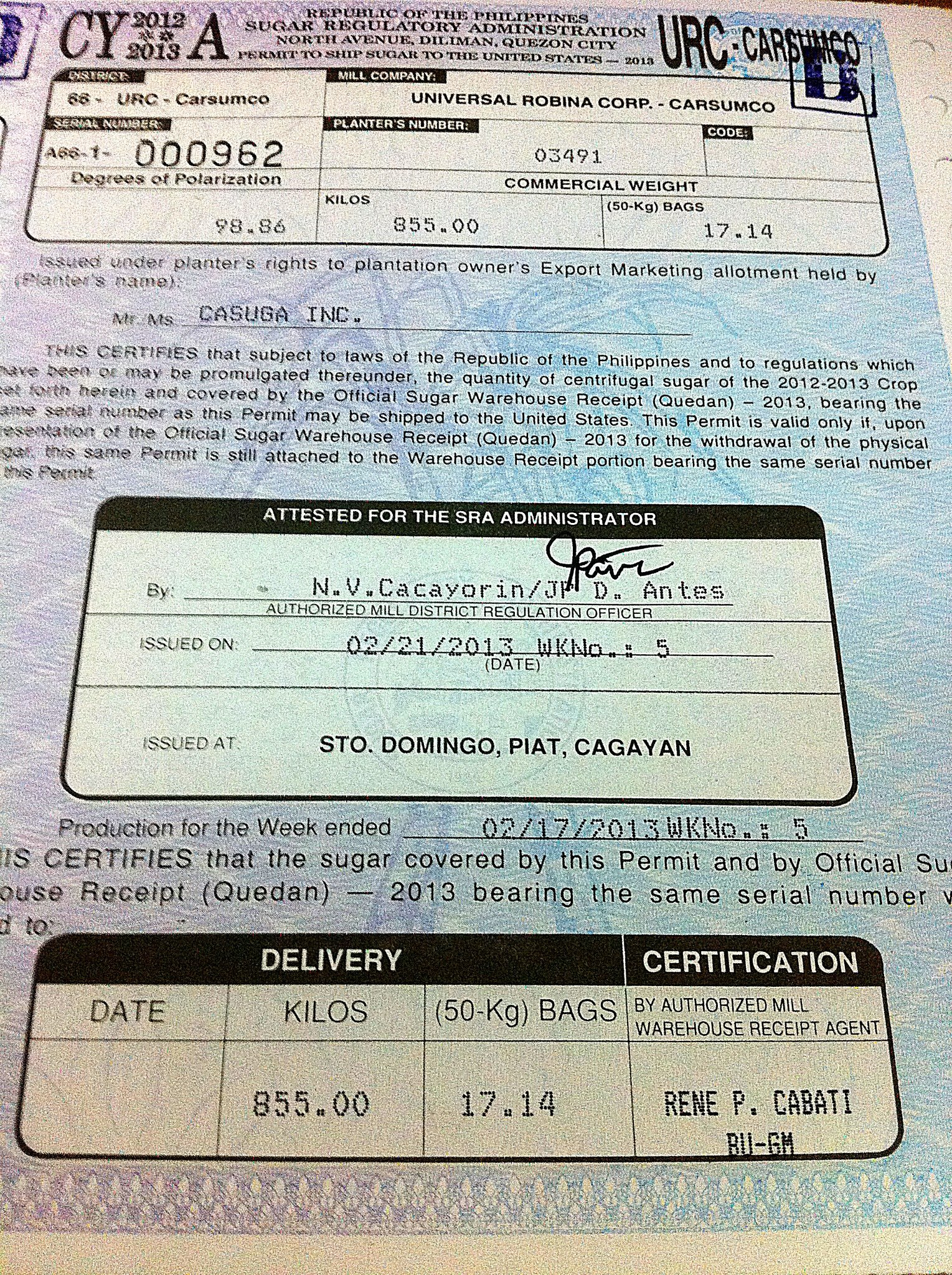 Quedans are use as negotiable instrument in sugar trading in the Philippines.